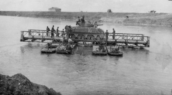 New Zealand soldiers of 20th Armoured Regiment transporting a tank over the Po River, Italy, during World War 2. Photographer unidentified. New Zealand soldiers transporting a tank over the Po River, Italy, during World War 2. New Zealand. Department of Internal Affairs. War History Branch :Photographs relating to World War 1914-1918, World War 1939-1945, occupation of Japan, Korean War, and Malayan Emergency. Ref: DA-14359-F. Alexander Turnbull Library, Wellington, New Zealand.